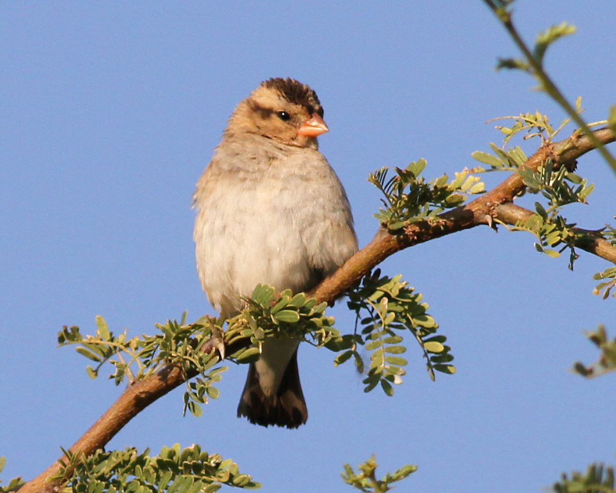 Female village indigobird, Vidua chalybeata, at Mapungubwe National Park, Limpopo, South Africa . Not good shots, but they go with all the males I posted.